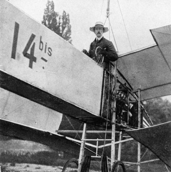 Brazilian aviation pioneer Alberto Santos-Dumont in his "14bis" airplane